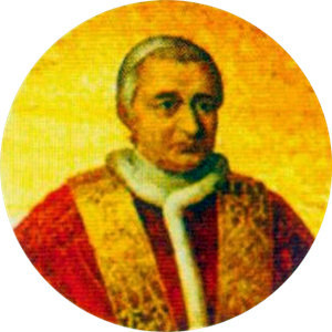 Portait of Pope Gregory XVI in the Basilica of Saint Paul Outside the Walls, Rome